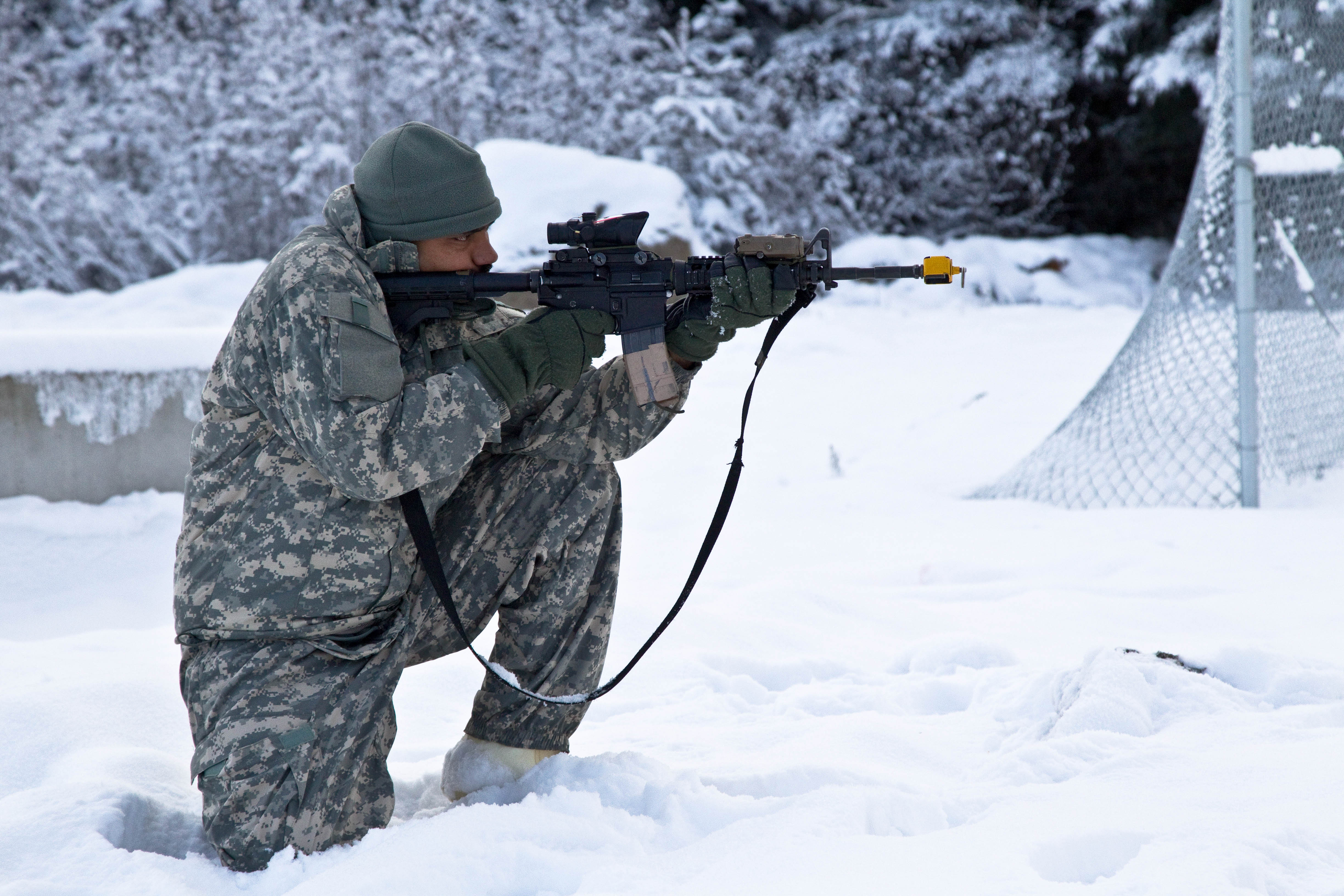 An Indian army soldier pulls security during a rehearsal at Forward Operating Base Sparta Nov. 11 in preparation for a night air assault and raid mission that included soldiers from U.S Army Alaska and the Indian army. The mission was the conclusion of the field training exercise portion of combined exercise Yudh Abhyas 2010.